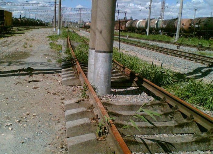 project error